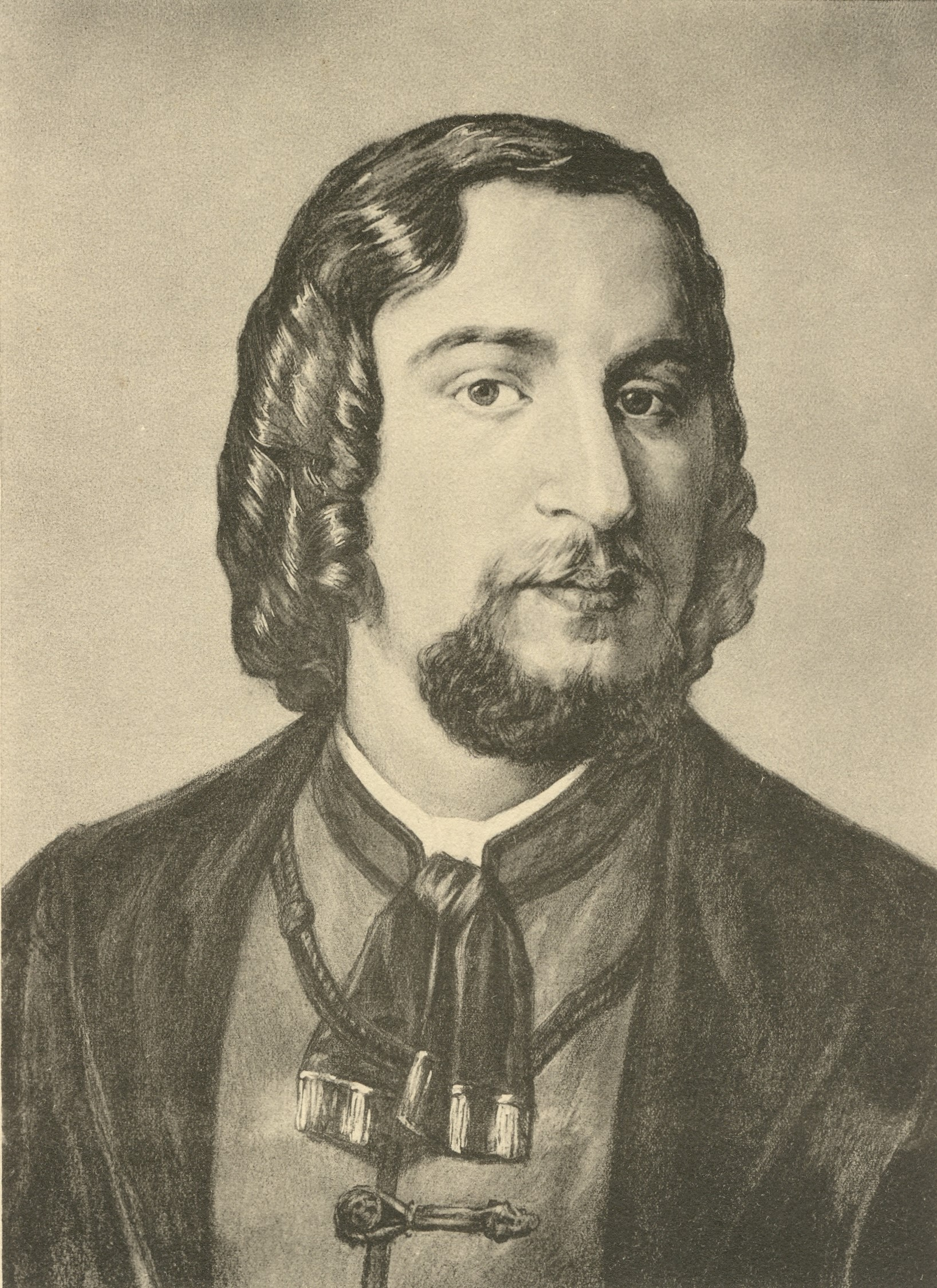 Portrait of Jovan Nako (1814-1889), Serbian landowner, benefactor and the founder of the first literary foundation of Serbian people. Srpski (latinica): Portret Jovana Naka (1814-1889), zemljoposednika, dobrotvora i osnivača prve književne zadužbine u srpskom narodu.